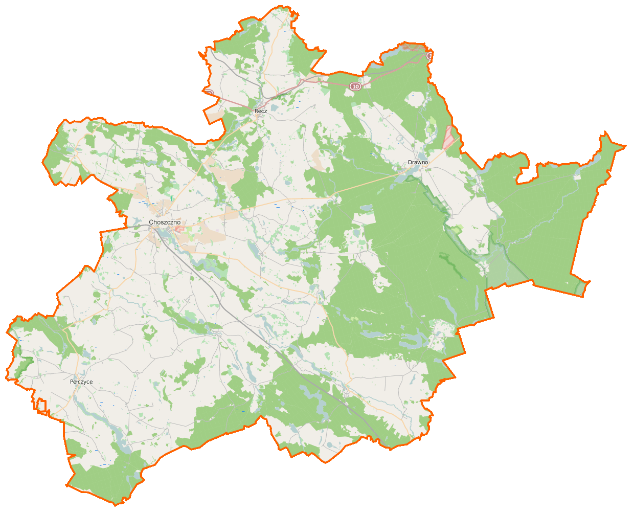 Map of Powiat choszczeński, Poland This map of Powiat choszczeński was created from OpenStreetMap project data, collected by the community. This map may be incomplete, and may contain errors. Don't rely solely on it for navigation.